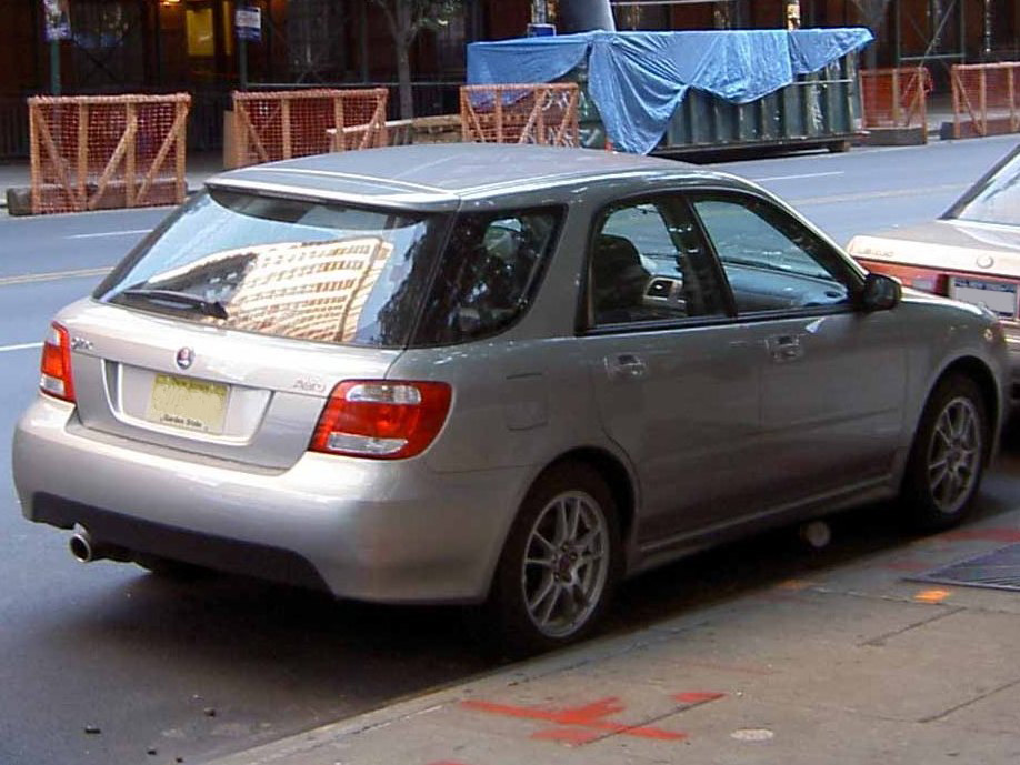 Saab 9-2x, photographed in New York City